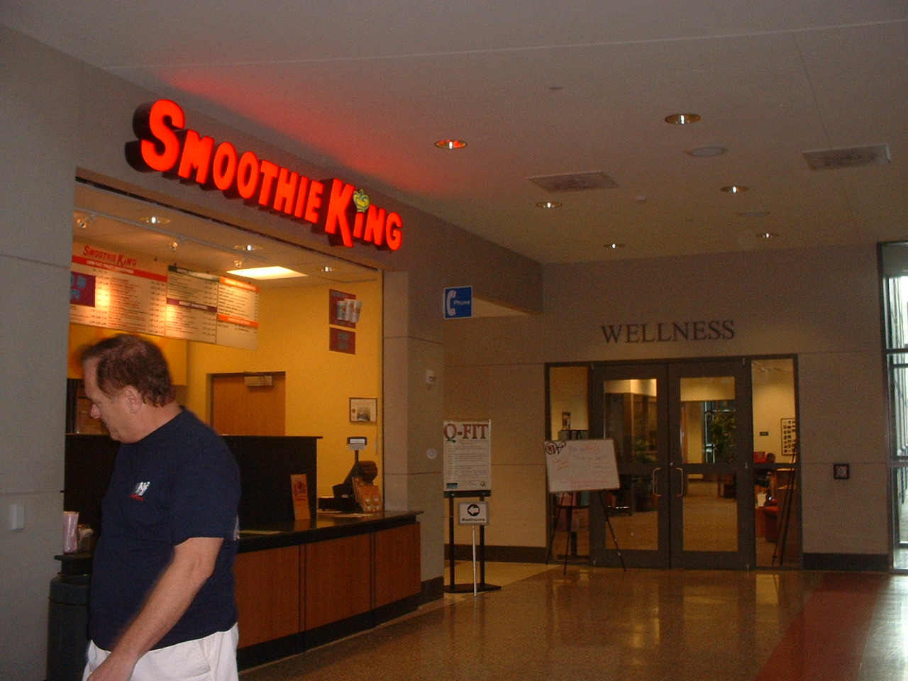 A Smoothie King at the University of Houston's Campus Recreation and Wellness Center